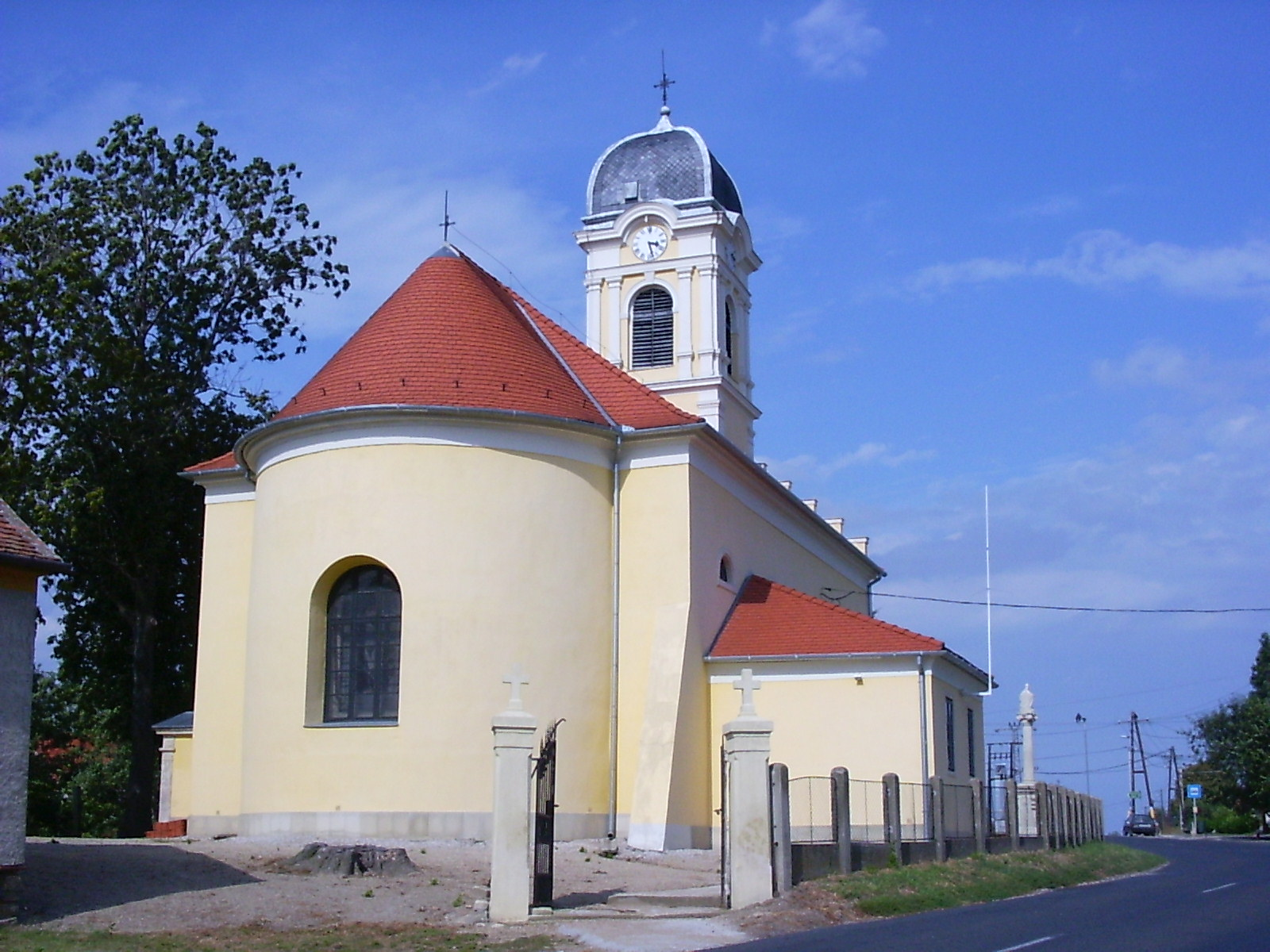 Visitation church, Pinnye